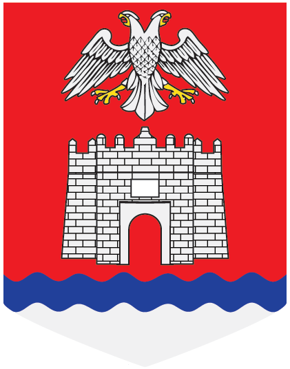 Small Coat of arms of Niš, Serbia